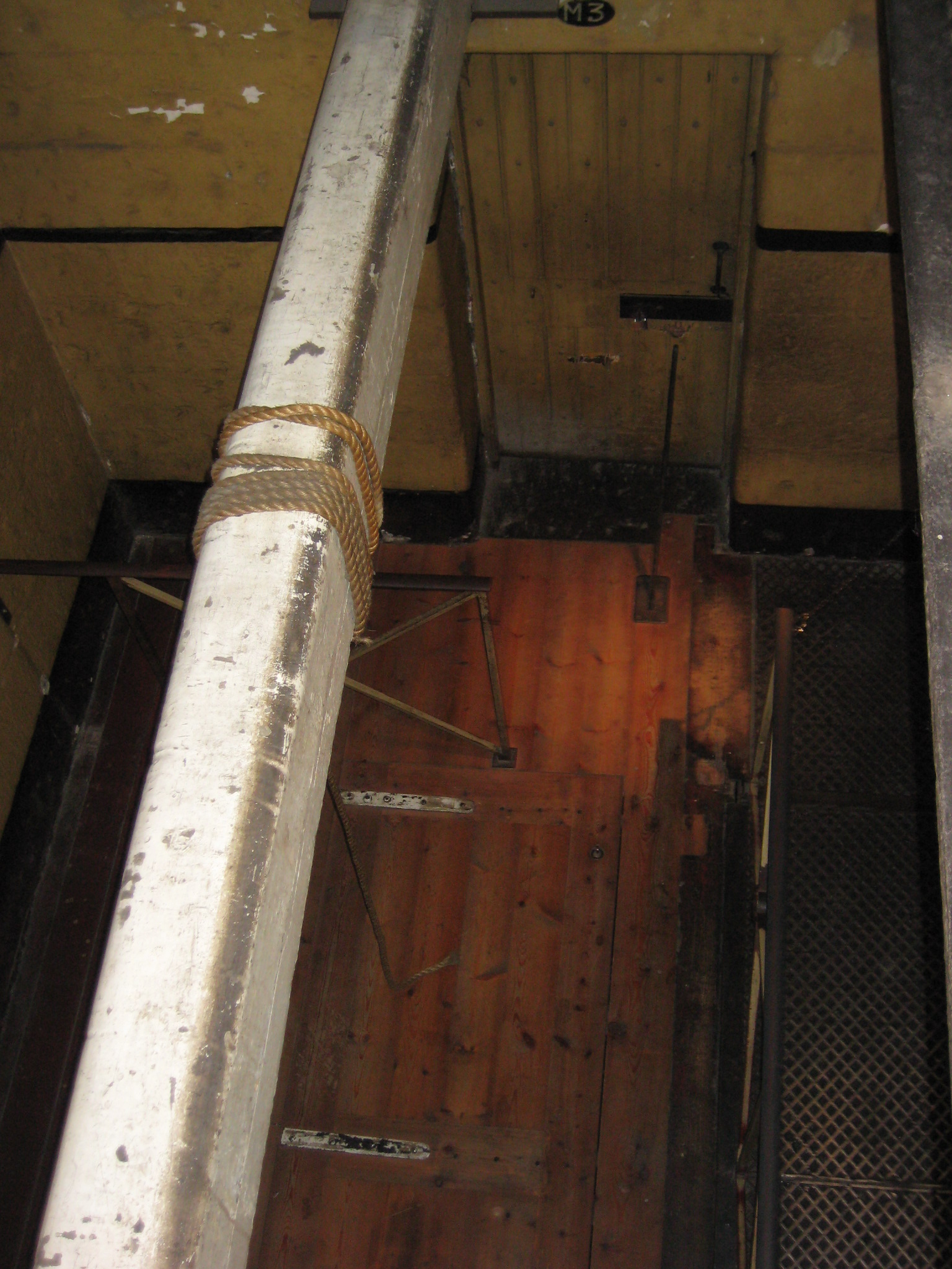 For the 1970's movie Ned Kelly, they rebuilt the gallows Ned Kelly was hanged from in the Old Melbourne Gaol. There is a lever on the side, wich opens a trap door in the floor.